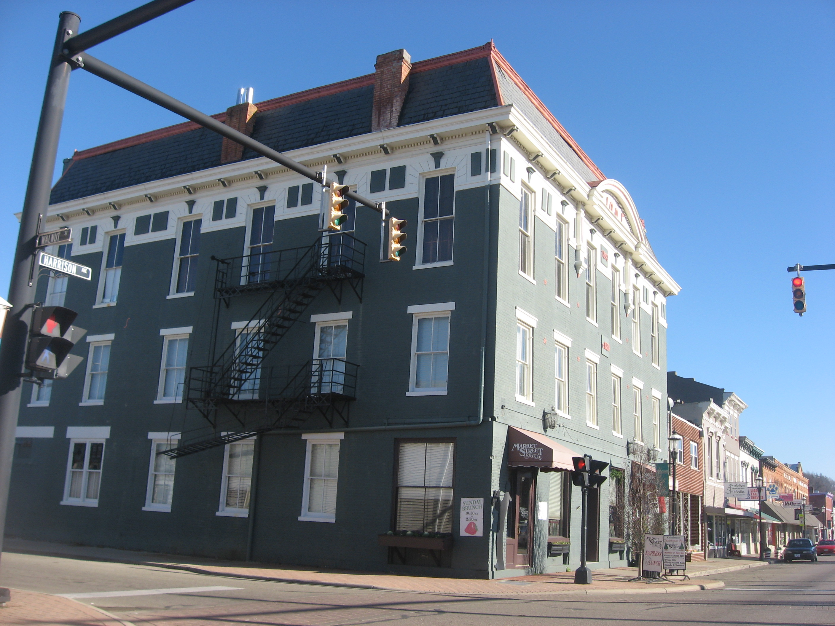 Buildings on the northern side of the 200 block of Harrison Avenue in Harrison, Ohio, United States.